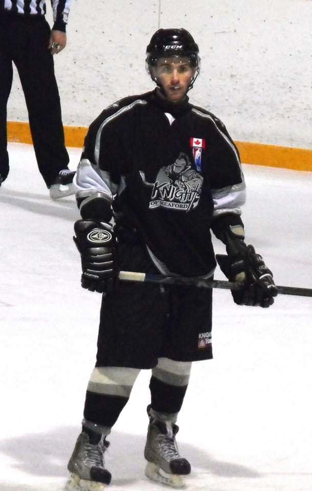 This photo was taken by Devan Mighton during the 2014-15 GMHL season.